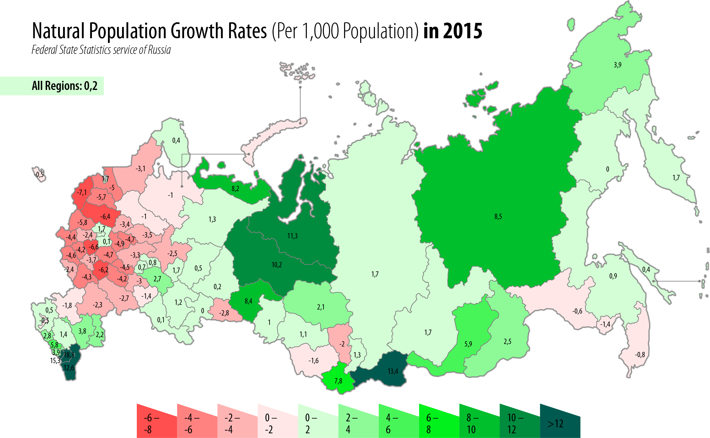 Natural population growth rates of Russia by region, 2015